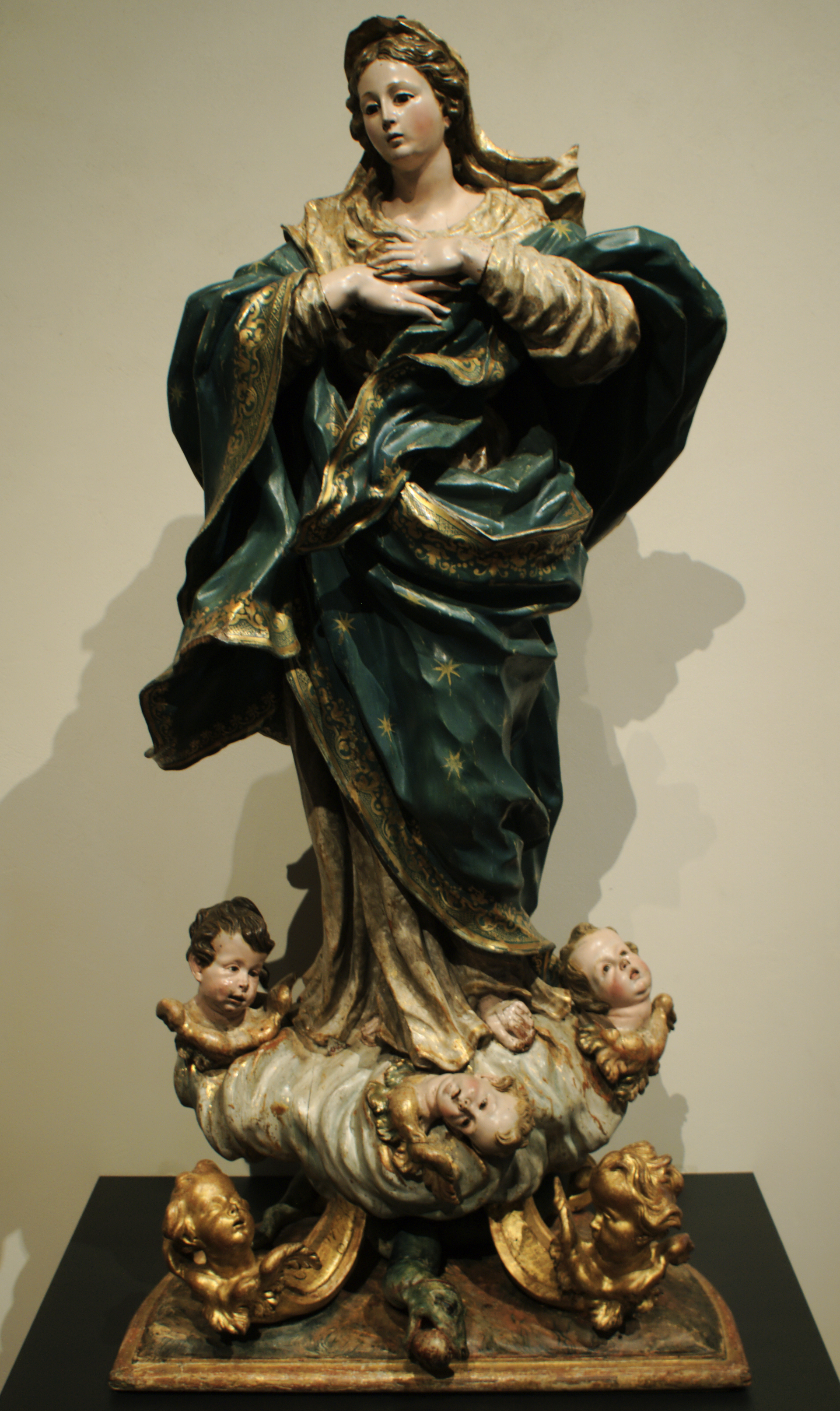 Virgen Inmaculada, by Pedro de Sierra (1735). Currently located at National Museum of Sculpture (Valladolid, Spain)